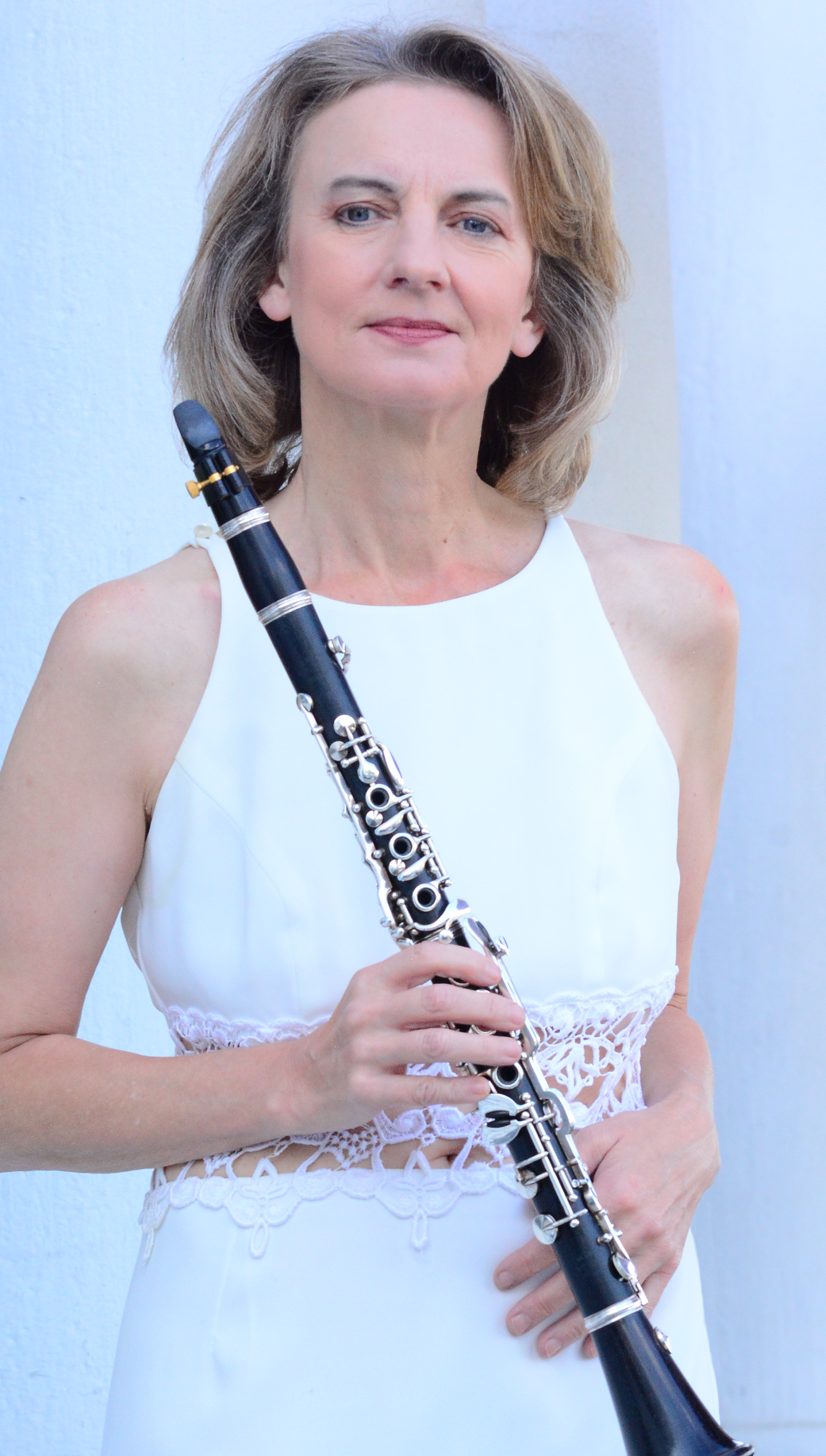 Sabine Meyer, clarinetist